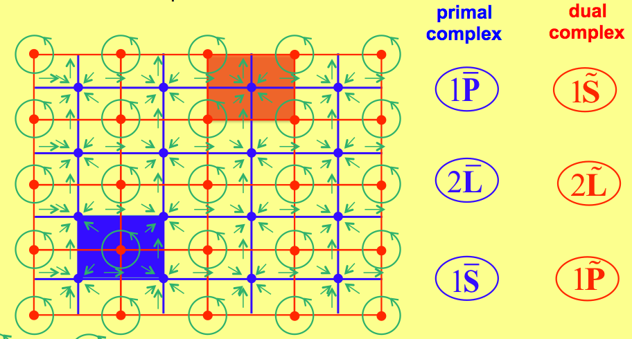 Primal and dual complex